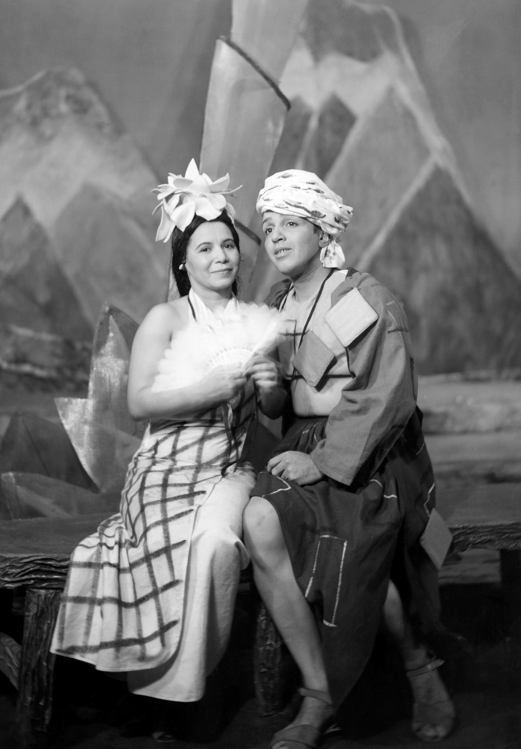 Cast photo of The Swing Mikado in Chicago. The starring roles were performed by Frankye Brown (Yum-Yum) and Maurice Cooper (Nanki-Poo).